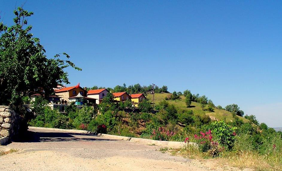 A view from Buldan, Denizli Province, Turkey